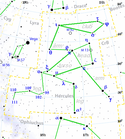 The stars of the constellation Hercules reconnected so as to show Hercules in a more graphic way. Based on the book The Stars — A New Way to See Them by H. A. Rey. This image was modified by AugPi. (c) AugPi, 2004.